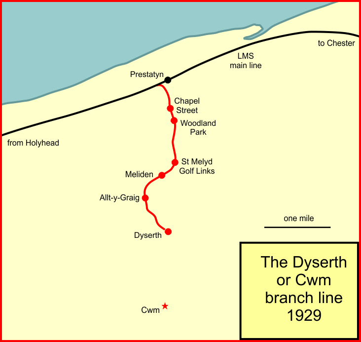 Diagram of the Dyserth branch line railway in North Wales in 1929